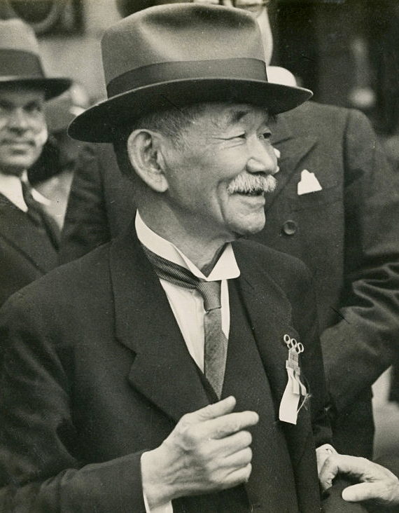 Japanese International Olympic Committee member jodoka Jigoro Kano (L) smiles as the 1940 Olympic Games goes to Tokyo after the vote during the IOC congress at Hotel Adlon on July 31, 1936 in Berlin, Germany.